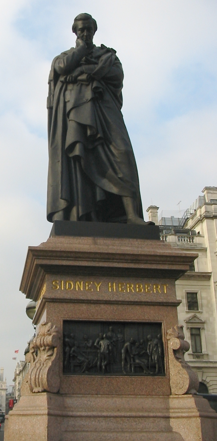 Sidney Herbert, by John Henry Foley